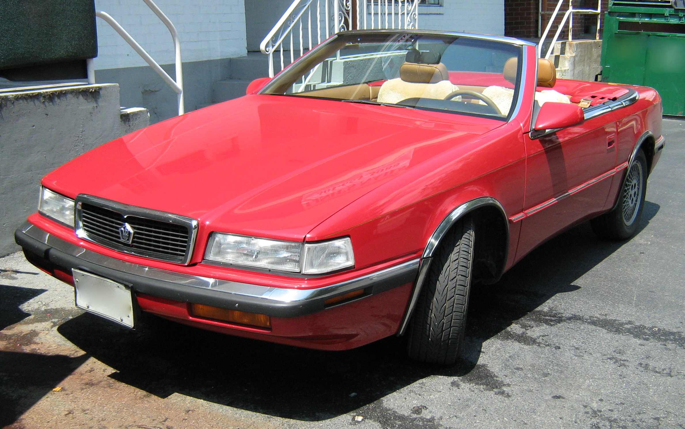 Chrysler TC by Maserati convertible - red